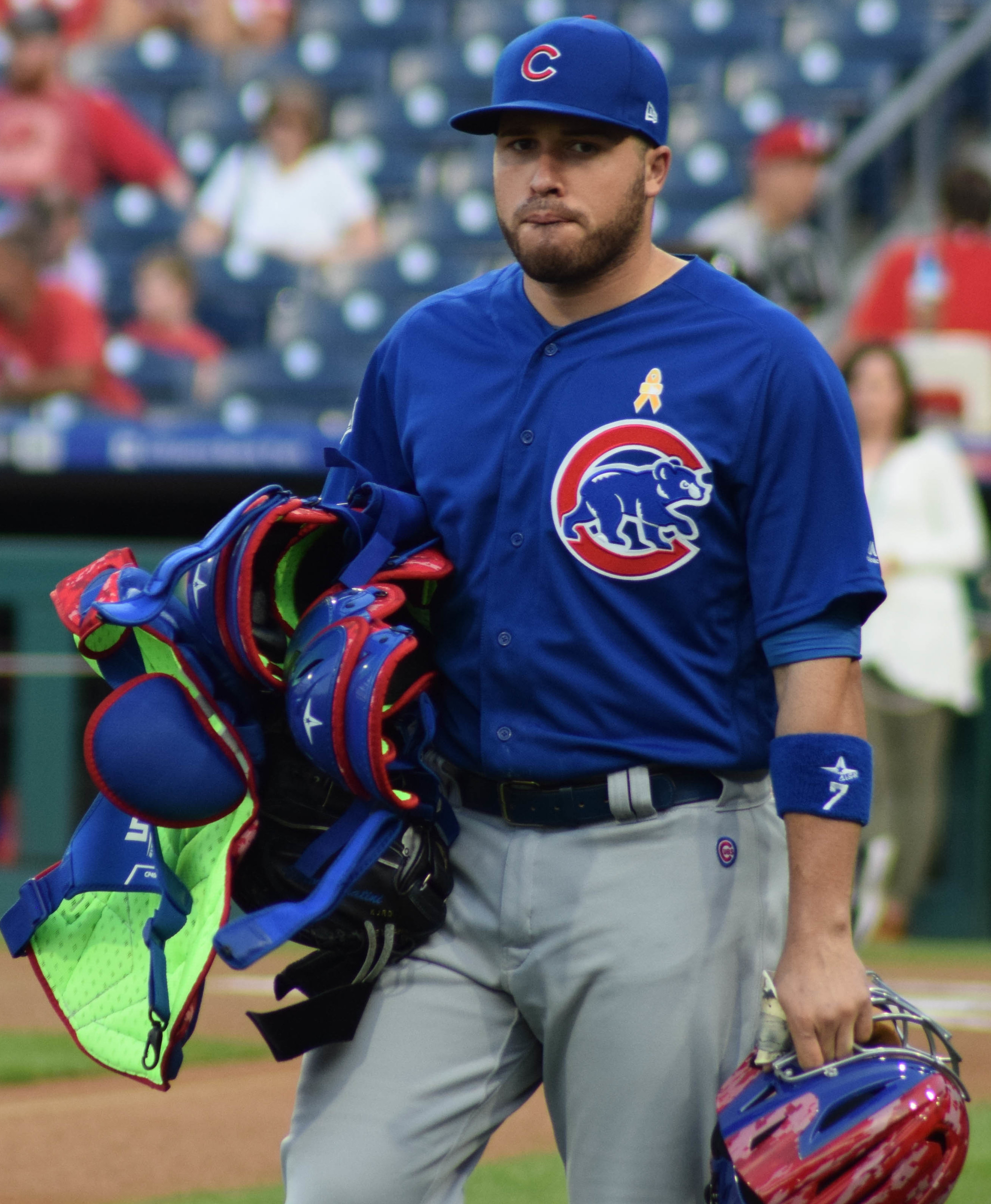 Chicago Cubs catcher Victor Caratini